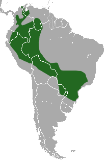 Brown-eared Woolly Opossum (Caluromys lanatus) range